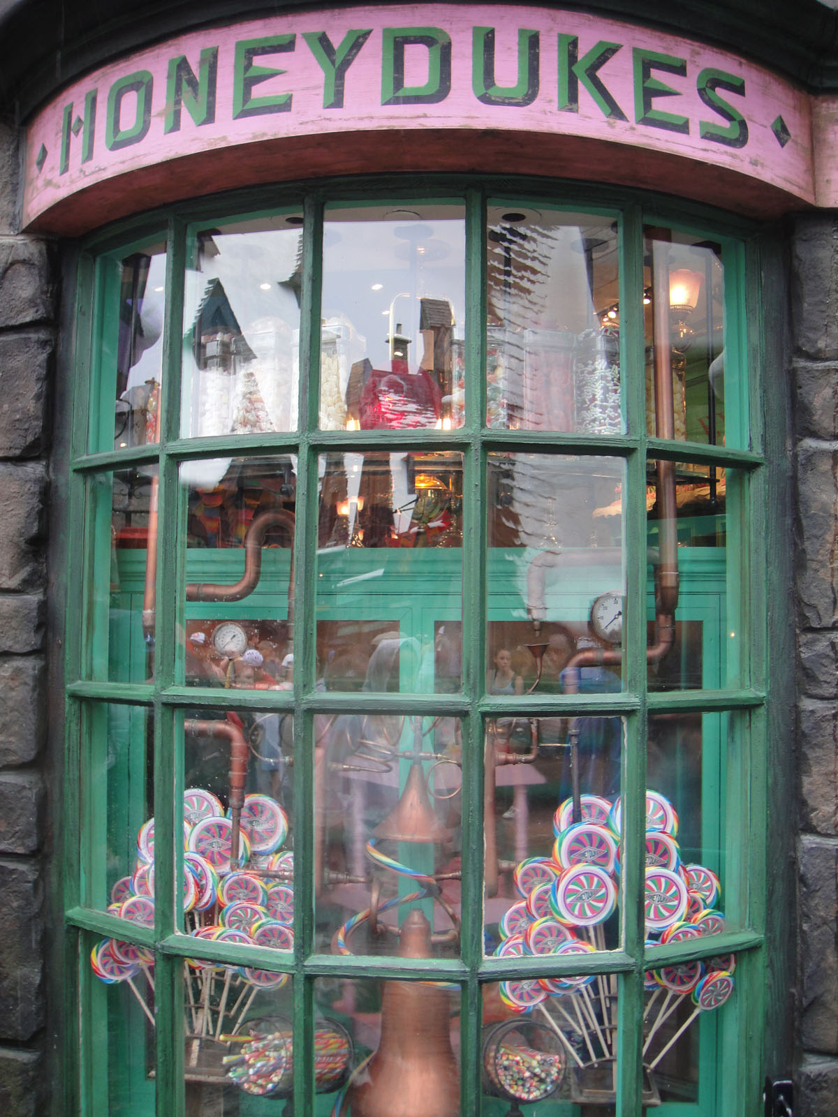 Wizarding World of Harry Potter - Honeydukes Sweets Shop